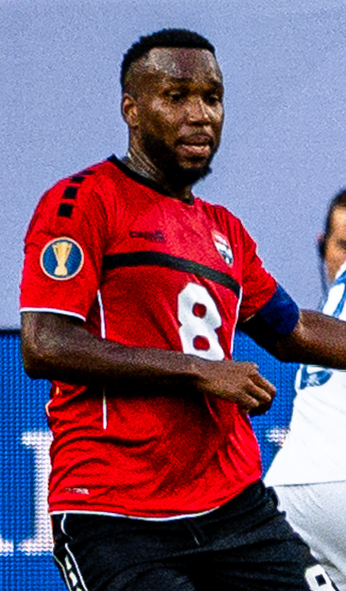 USMNT vs. Trinidad and Tobago